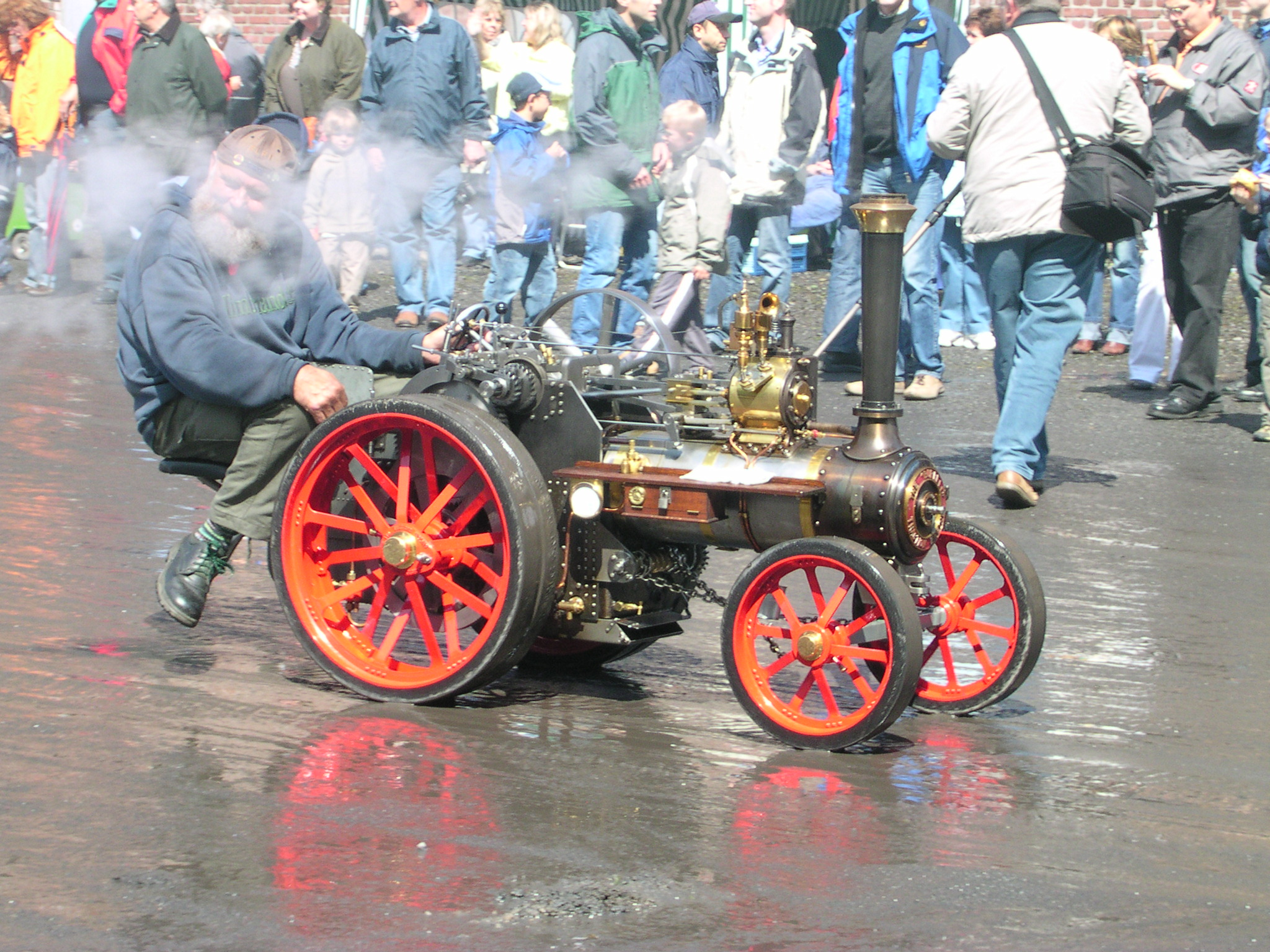 5th steam festival in Bochum, Germany 2007